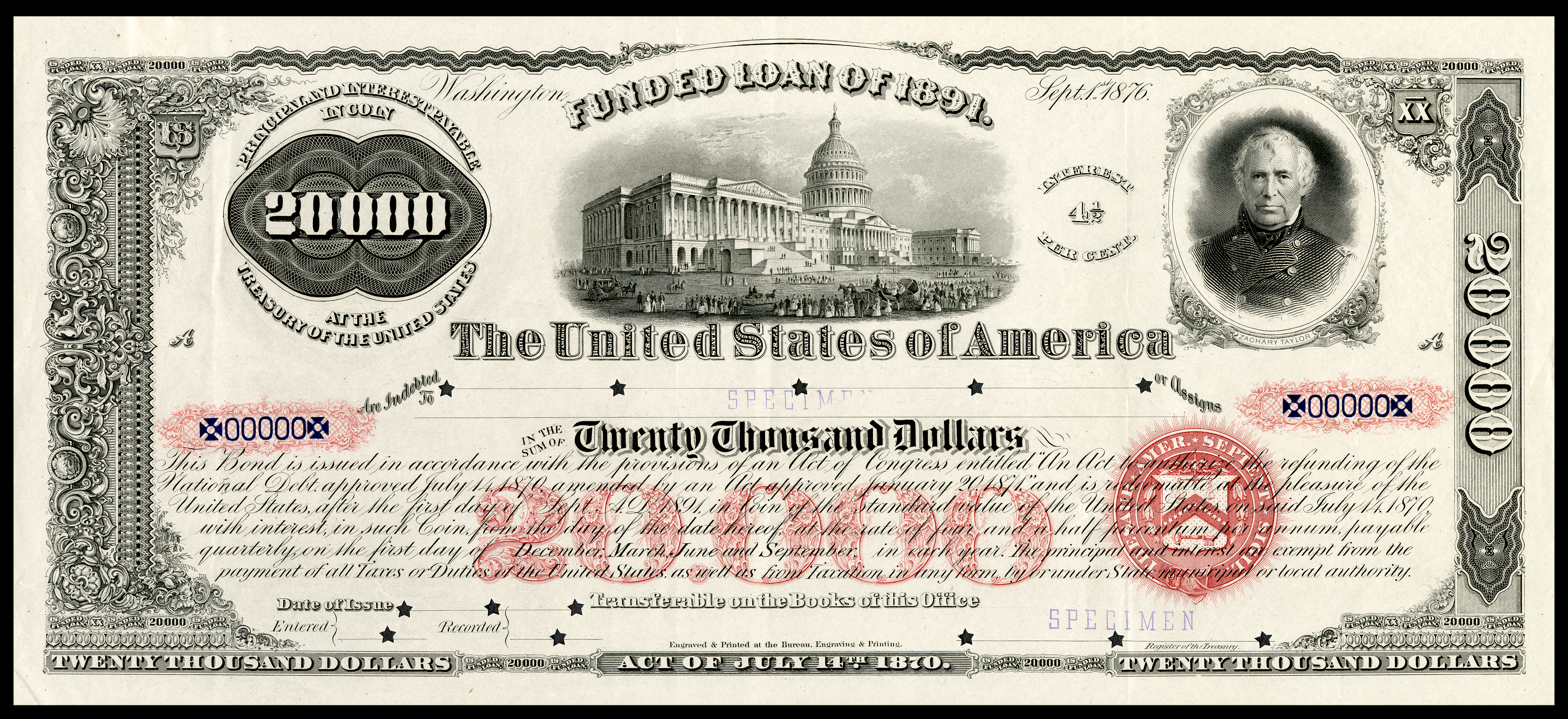 US-Funded Loan of 1891-$20,000 (face only)